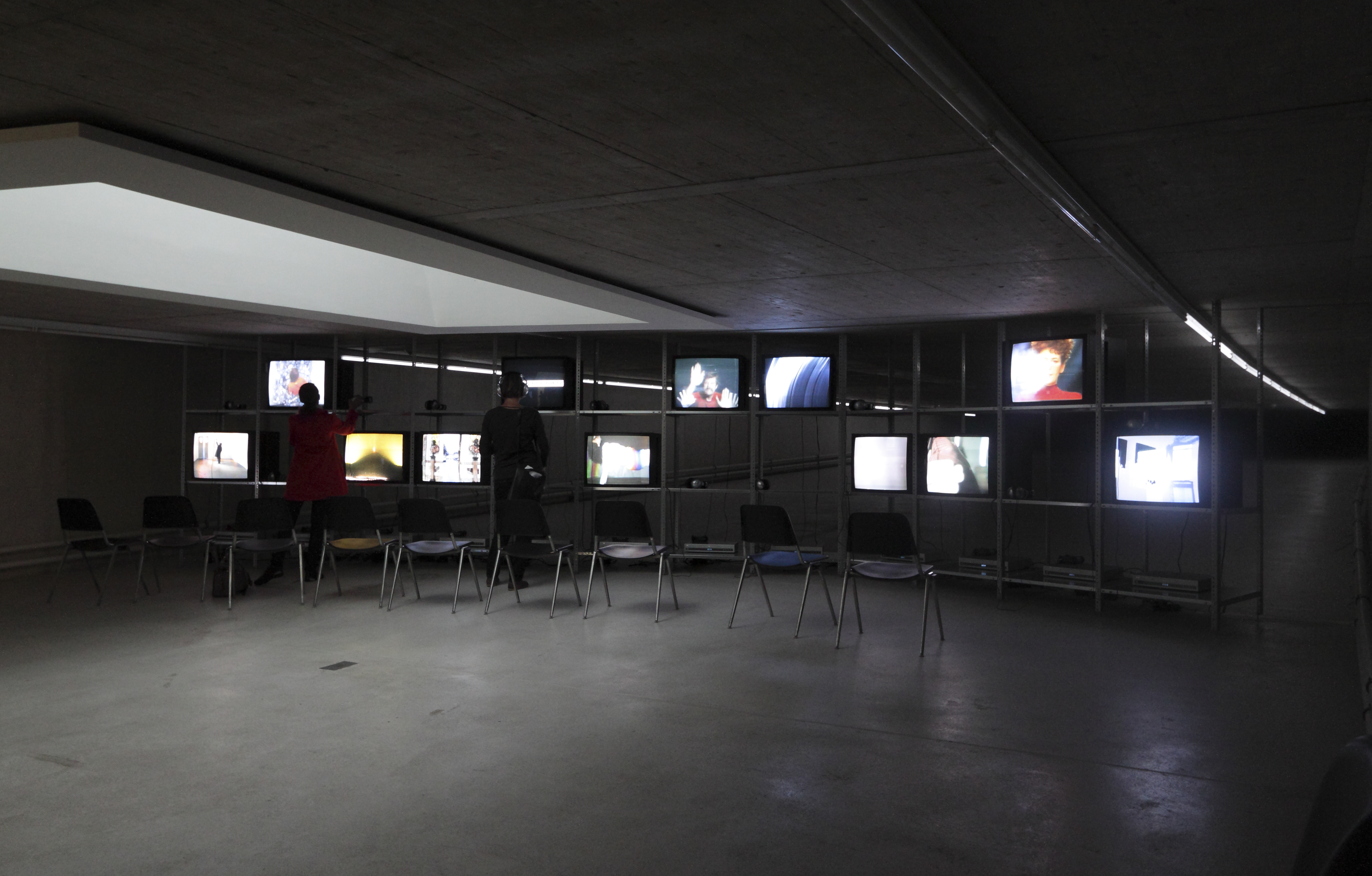 View from the exhibition: Images Against Darkness. Video art from the archive of imai, KIT Kunst im Tunnel, Dusseldorf, 2012. Curators: Dr. Renate Buschmann and Gertrud Peters. Works from the following artists have been on view: Julián Álvarez Garcia, George Barber, Dara Birnbaum, Claus Blume, Klaus vom Bruch, Robert Cahen, Peter Callas, Douglas Davis, Sachli Golkar, Bettina Gruber, Nate Harrison, Freya Hattenberger, Oliver Held, Gary Hill, Patricia Hoeppe, Nan Hoover, Hörner/Antlfinger, Gudrun Kemsa, Sunjha Kim, Kevin Pawel Matweew, Franziska Megert, Norbert Meissner, Chris Newman, Michalis Nicolaides, Marcel Odenbach, Raskin (Rotraud Pape, Andreas Coerper), Ulrike Rosenbach, Lydia Schouten, Bill Seaman, Peter Simon, Steina, Myriam Thyes, Woody Vasulka, Maria Vedder, Jan Verbeek.